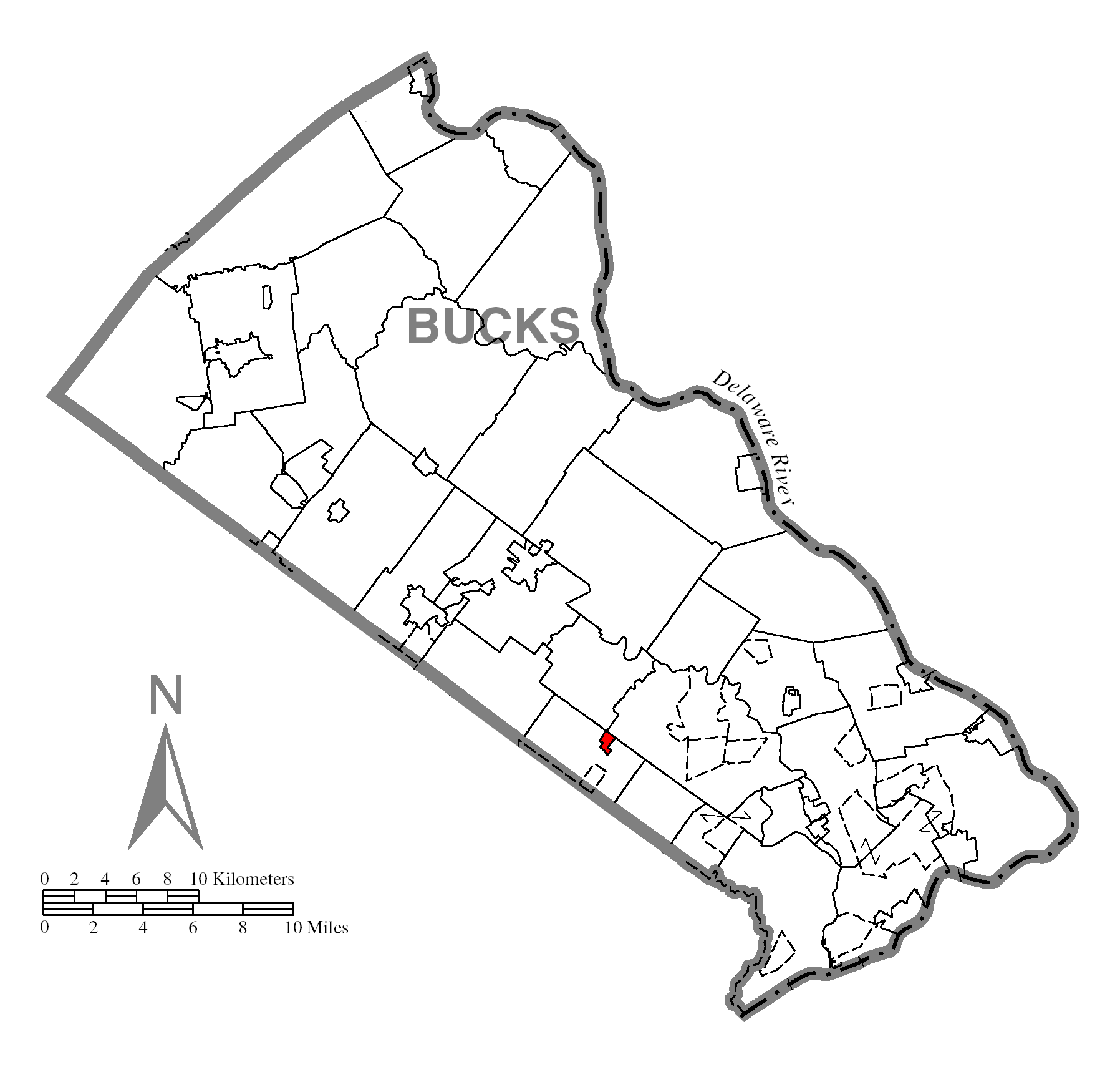 A map of Bucks County showing Ivyland, Pennsylvania (alternate) highlighted on the map.